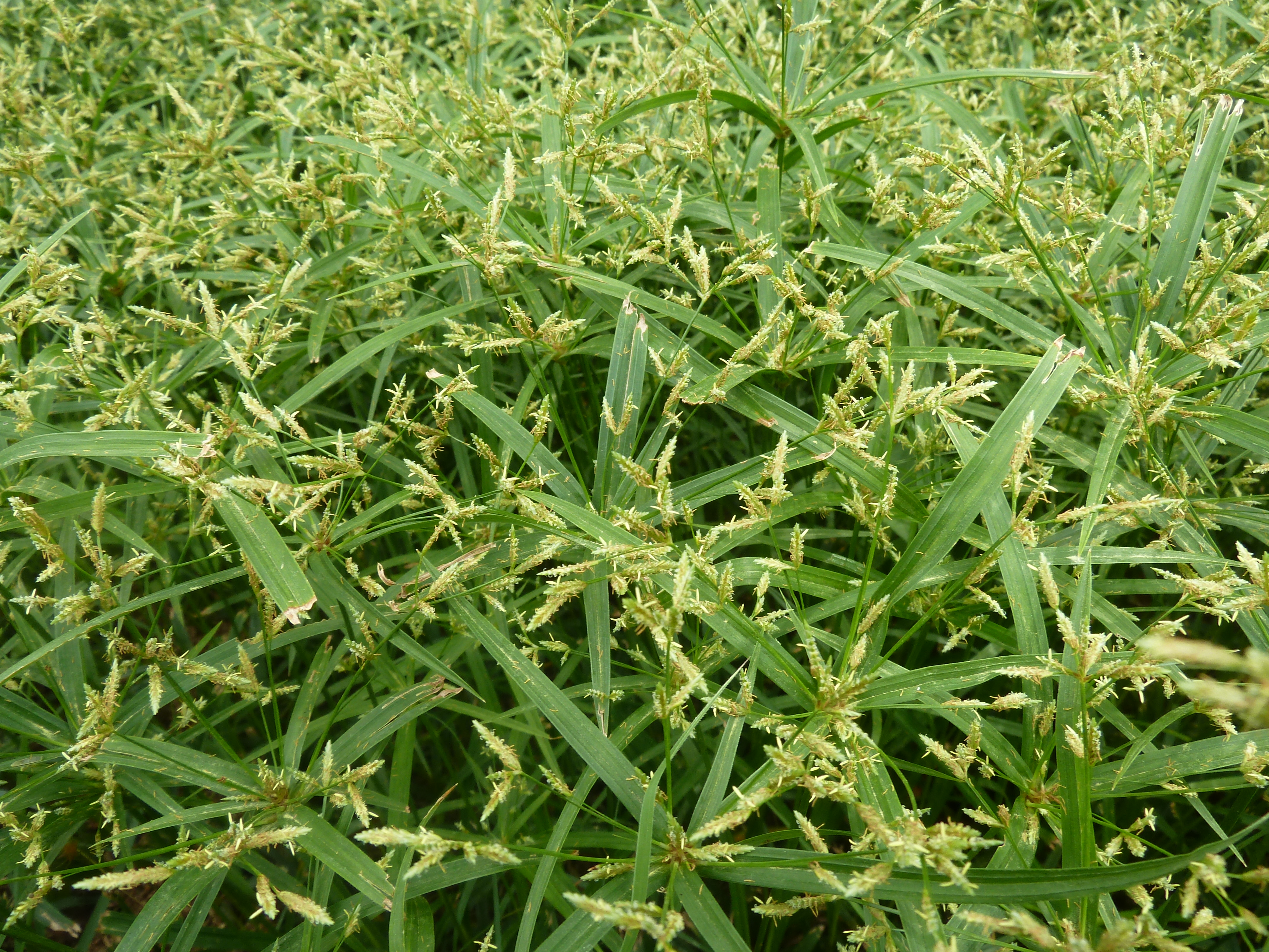 Foliage and inflorescences of Dwarf papyrus at Skeerpoort, South Africa, on the southern slopes of the Magaliesberg